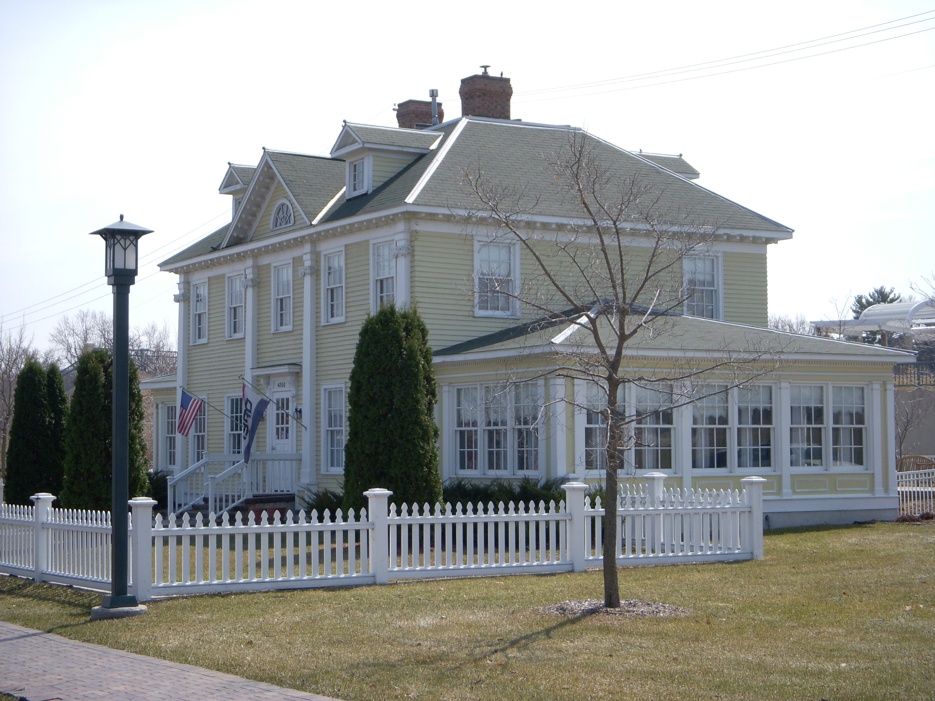 A photo of Minneapolis's Longfellow House, built as a smaller replica of the Longfellow House in Cambridge, MA.